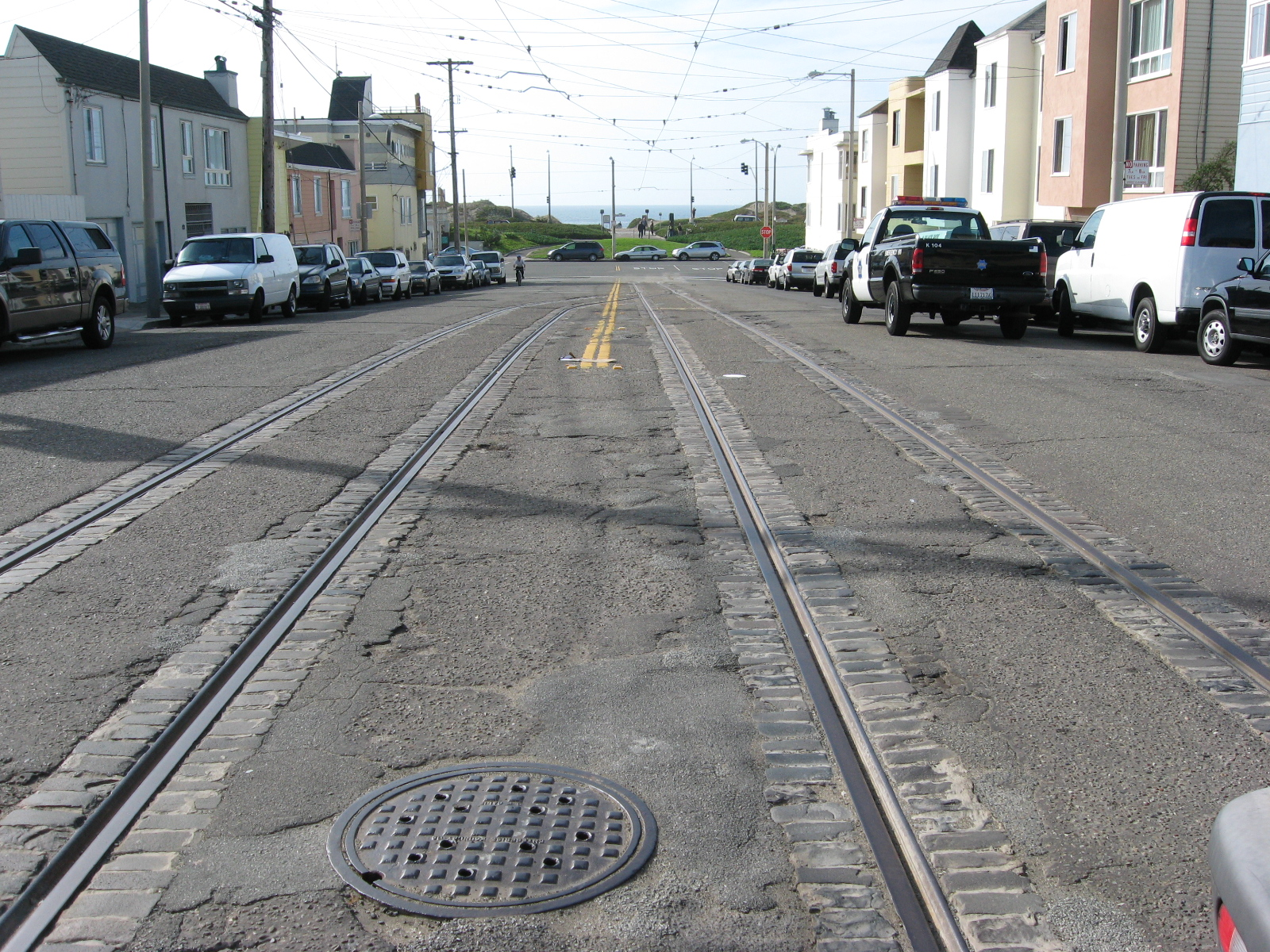 Taraval and 47th Ave. These tracks were the original end of the L Taraval line, and are the only tracks still embedded in cobblestone.